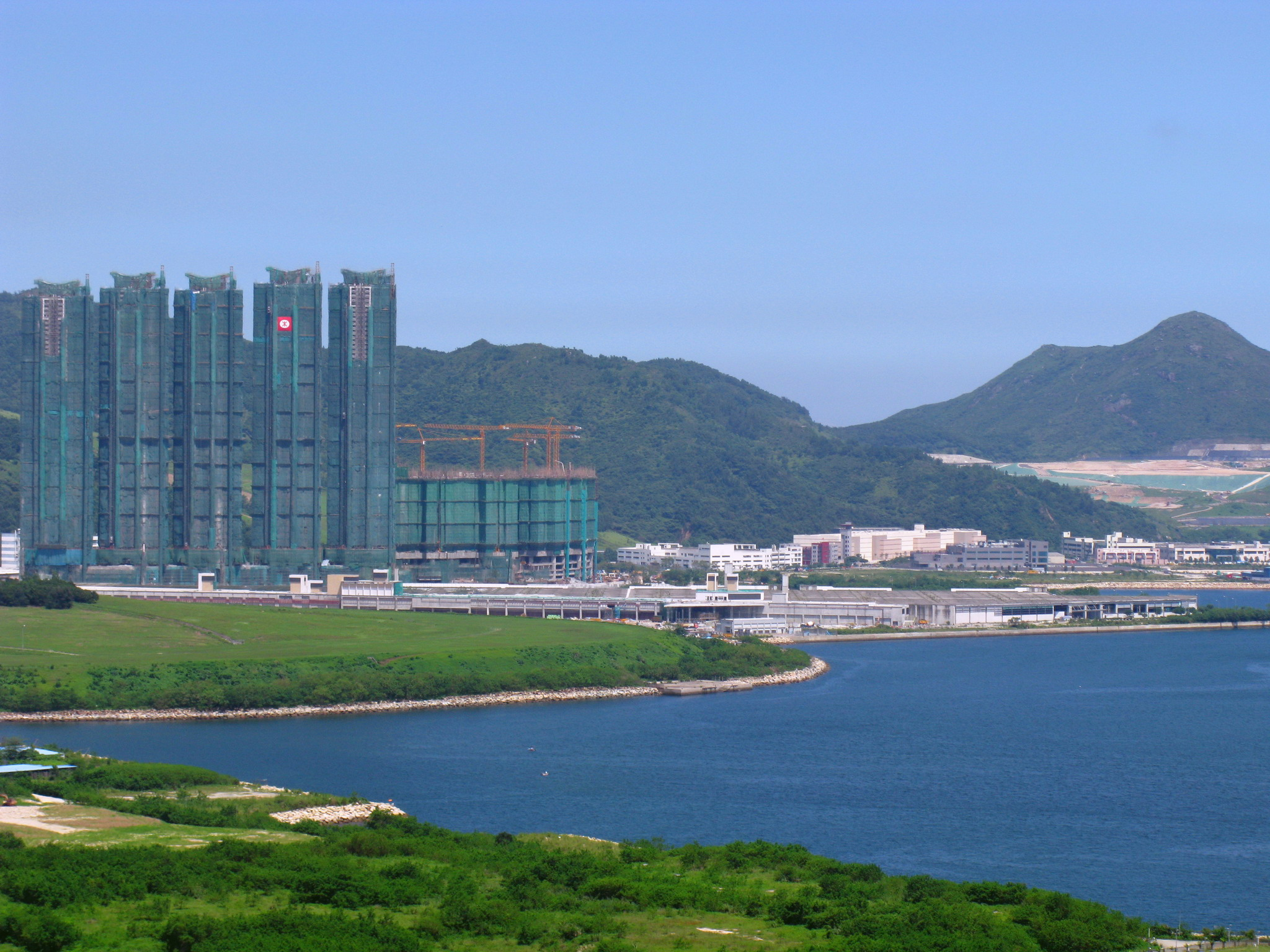 MTR Tseung Kwan O Depot & Lohas Park